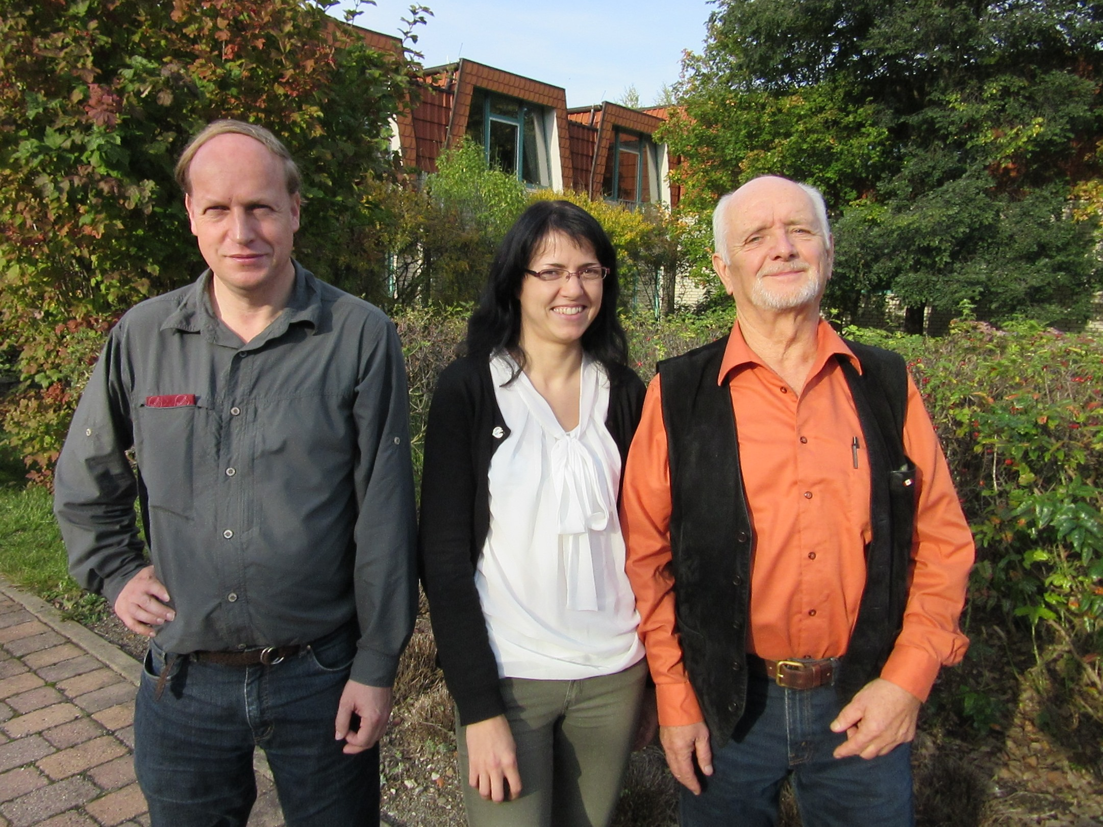 AG Eulen Chairman Jochen Wiesener (right), Deputy Chairman Christiane Geidel und Deputy Chairman Martin Lindner in Halberstadt.